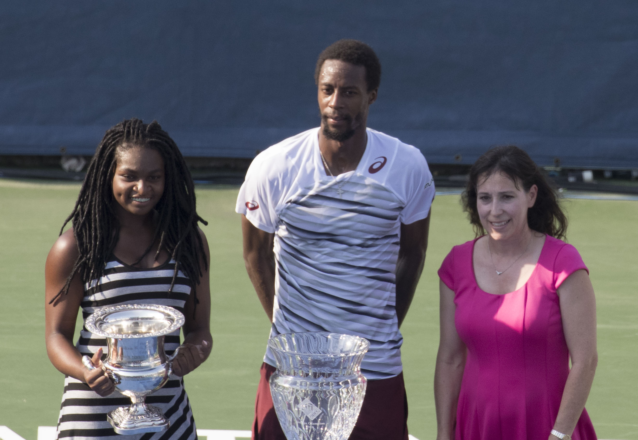 2016 Citi Open Finals 7/24/16